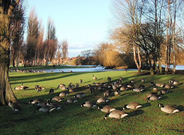 Pickering Park, Hull Looking north-northeast from close to the southwestern corner of the boating lake.